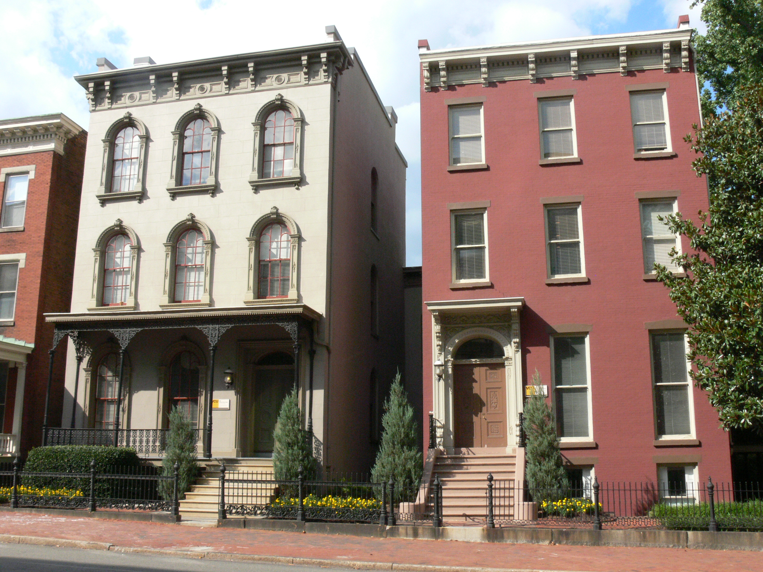 The Putney Houses in the Court End neighborhood of Richmond, Virginia; jointly on the National Register of Historic Places